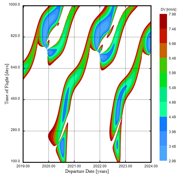 "Porkchop plot" of the time needed for space travel from Earth to Mars, depending on date and launch-delta-v; timespan beginning of 2019 to beginning of 2024. Computer-generated graphics, made by GPLv3-licensed software.